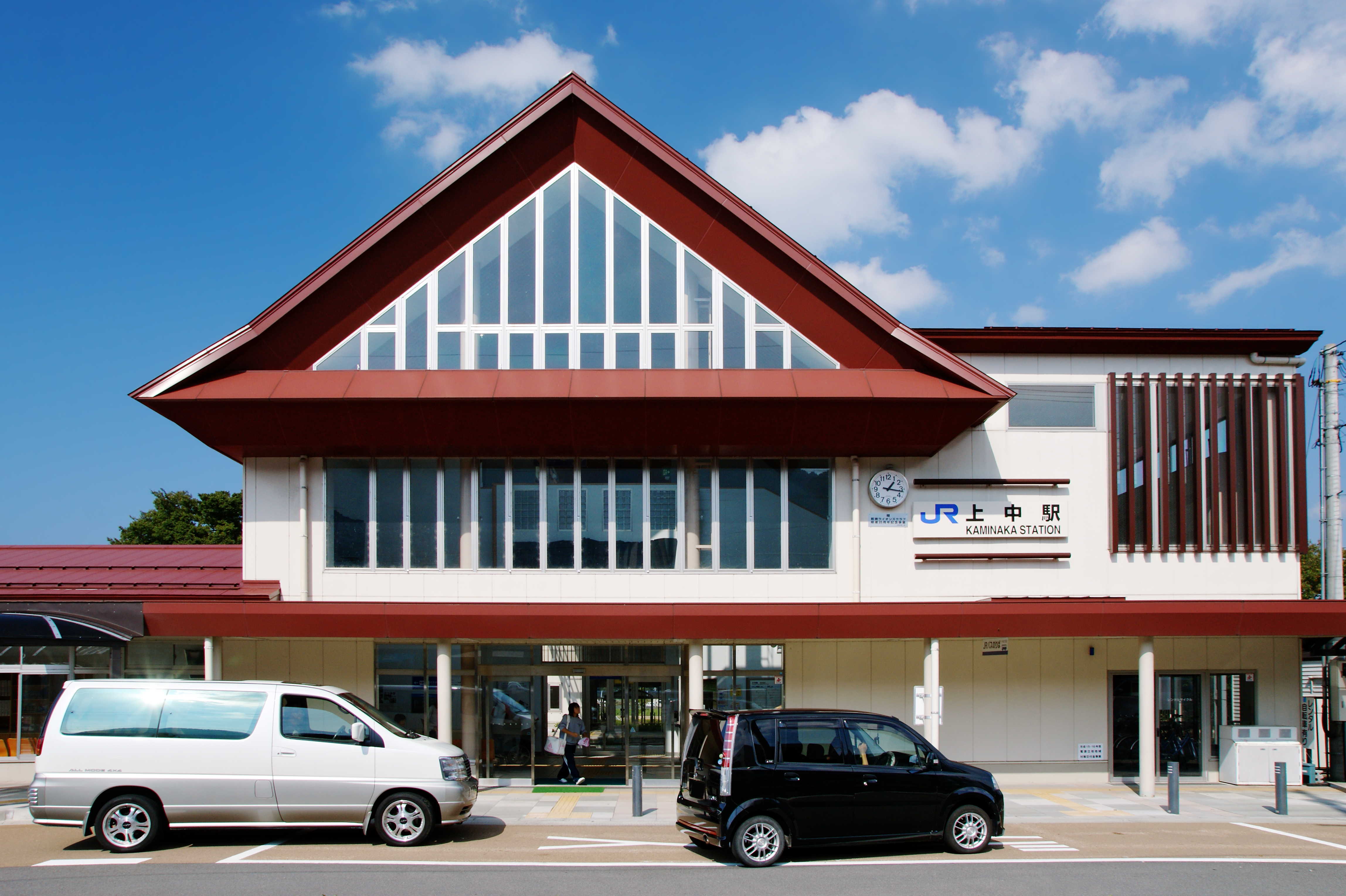 Kaminaka Station, Wakasa, Fukui prefecture, Japan